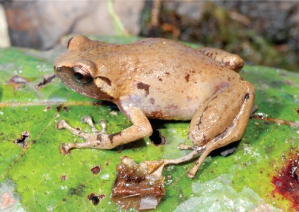 Paratype of Oreophryne anamiatoi (BPBM 33764).